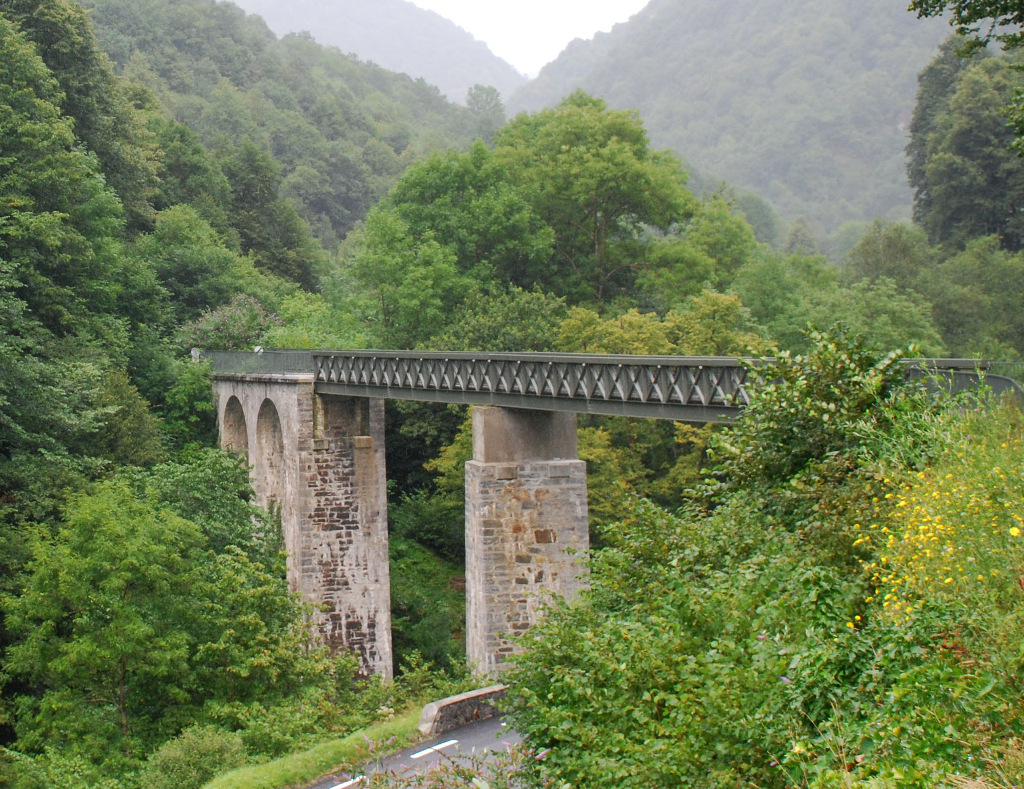 Meyabat Bridge (Hautes-Pyrénées, France) in 2008, with a new deck. Located on the former railway line Pierrefitte - Cauterets, which is now a greenway.